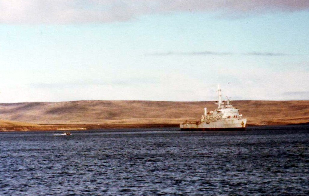 HMS Fearless in San Carlos 13 June 1982